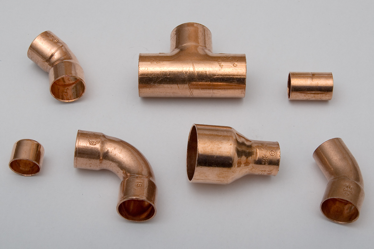 copper fittings: Upper: 45° elbow (female-female), tee, coupler Lower: endcap, 90° sweep elbow (female-female), reducer, 45° elbow (male-female)